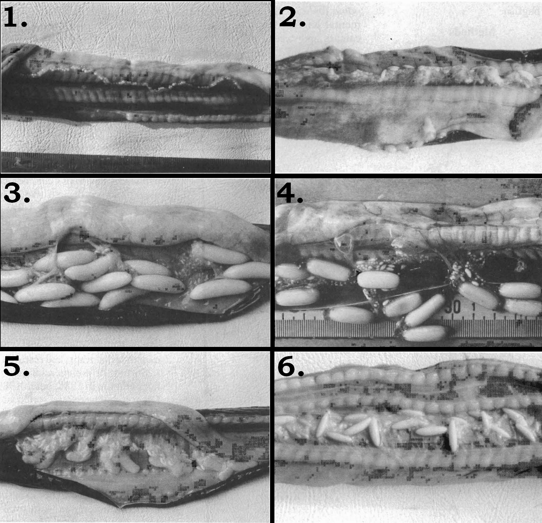 Mature female black hagfish, (Eptatretus deani) gonads showing egg development